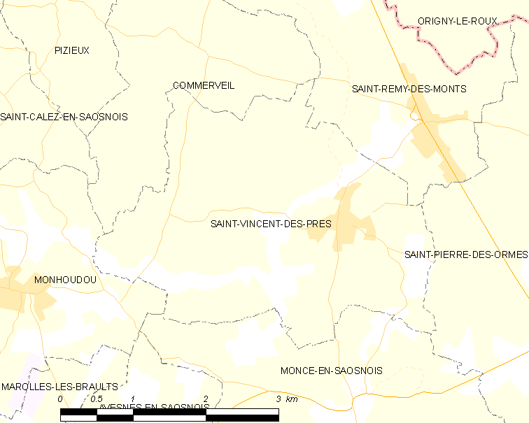 Map of French municipality